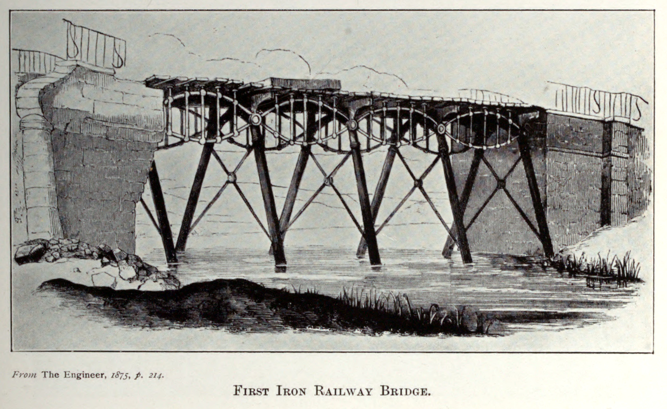 Entitled "First Iron railway bridge", this is the bridge over the River Gaunless on the Stockton and Darlington Railway, designed by George Stephenson. Originally there were three sections, but a fourth was added in 1824.